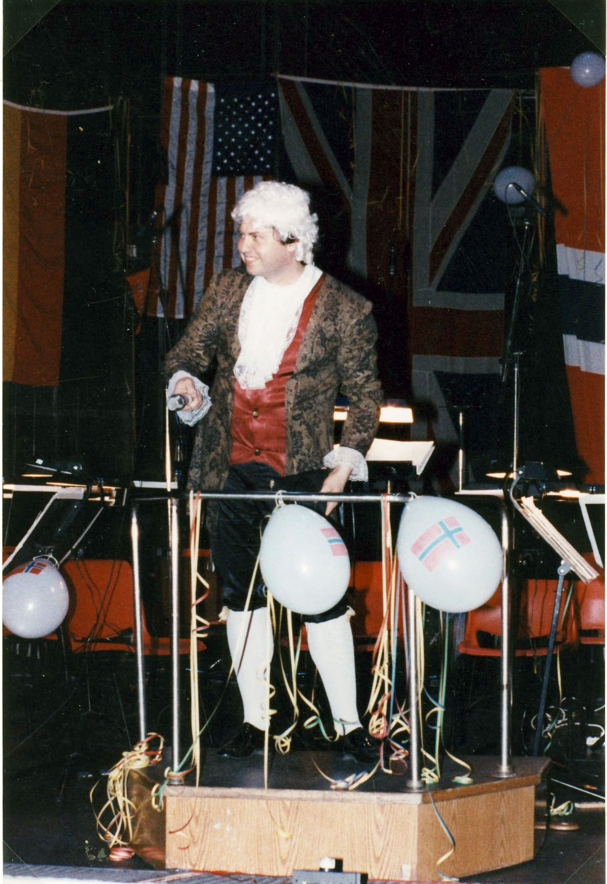 Bjørn Einar "Mozart" Sakseid 5 1990